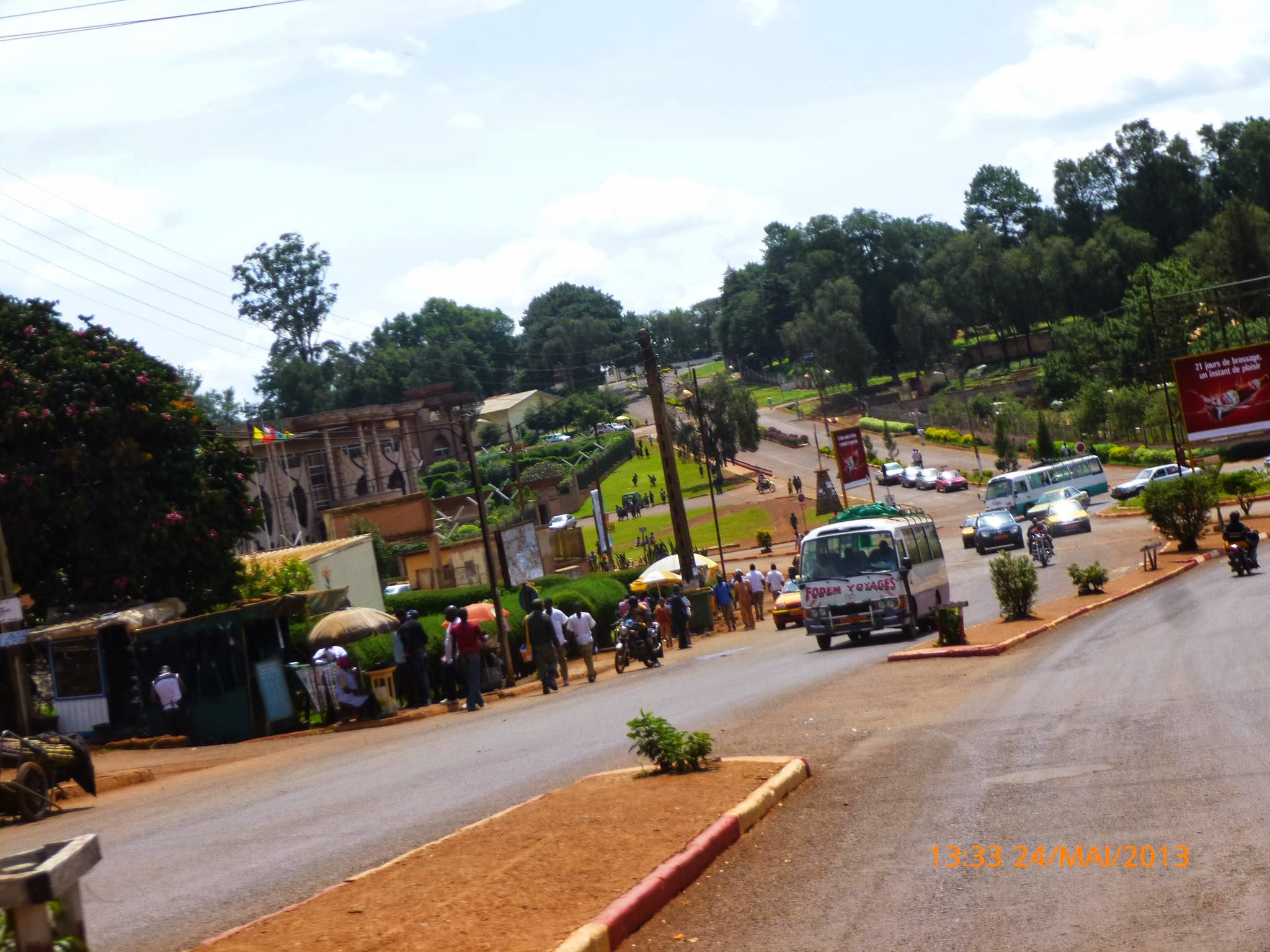 Bafoussam, Tamdja neighbourhood. view of BEAC from afar